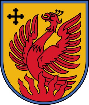 Coat of arms of Dagda municipality